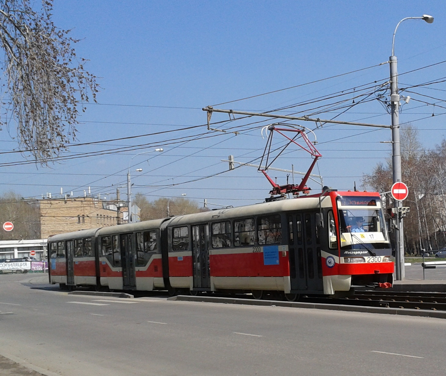 Tram Tatra KT3R "Cobra" on Polyarnaya street in Moscow, Russia